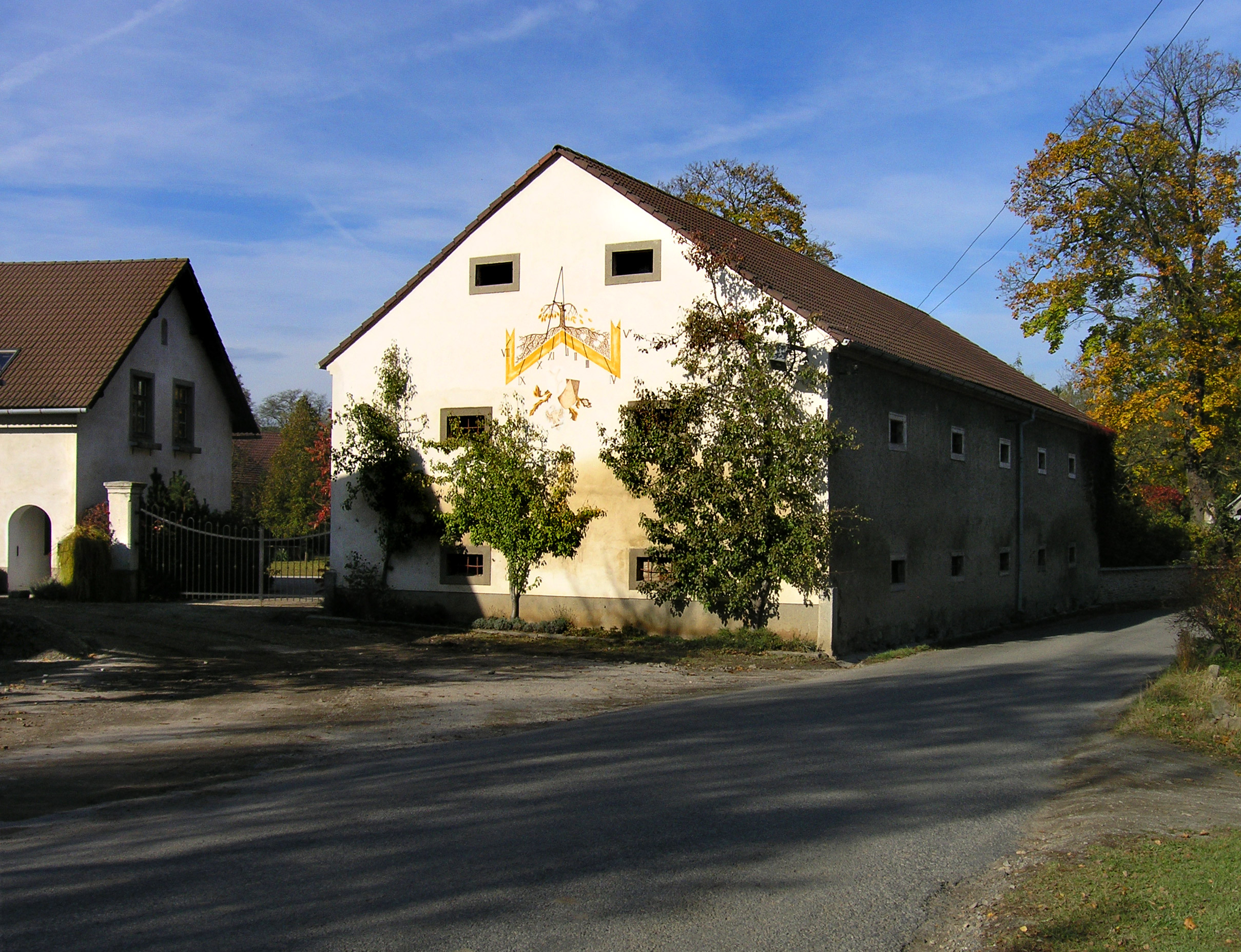 Barn in Rantířov, Czech Republic